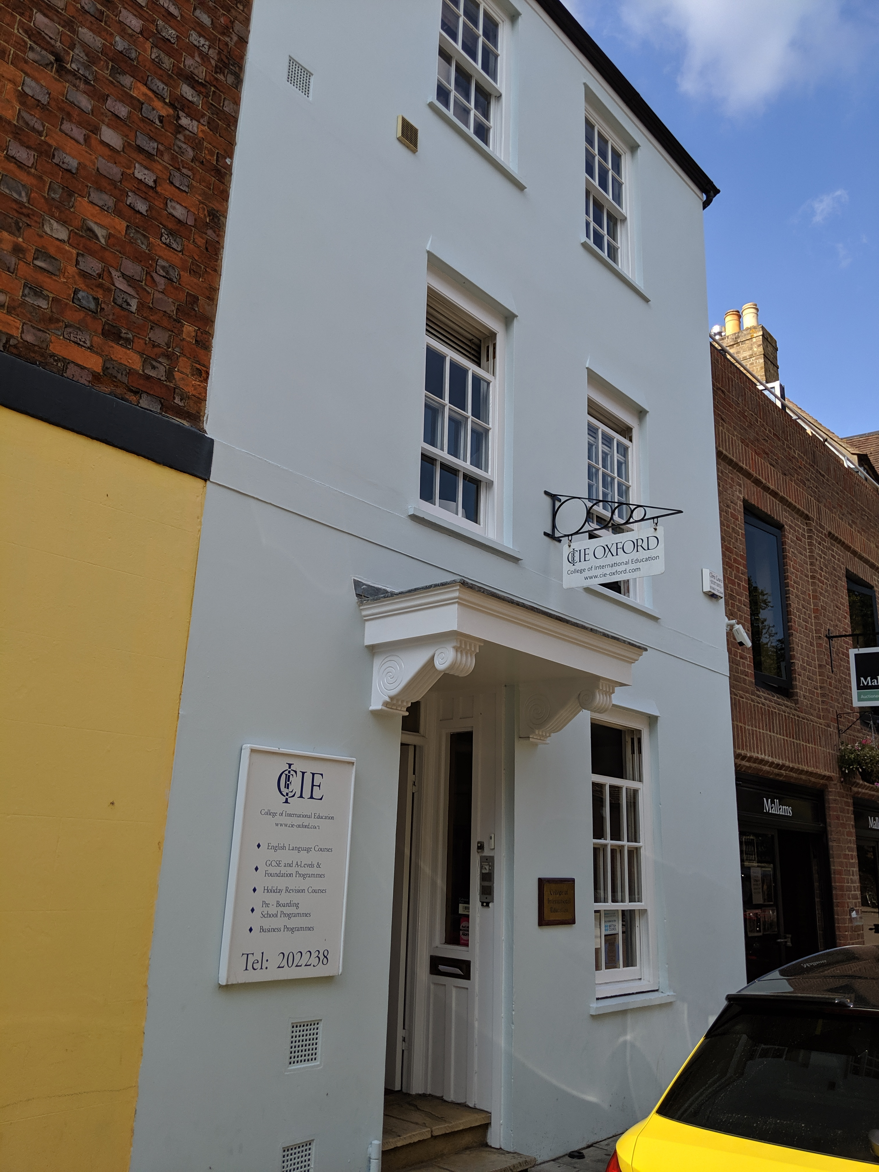 This is the Bocardo House facility of the College of International Education, a private college in Oxford.